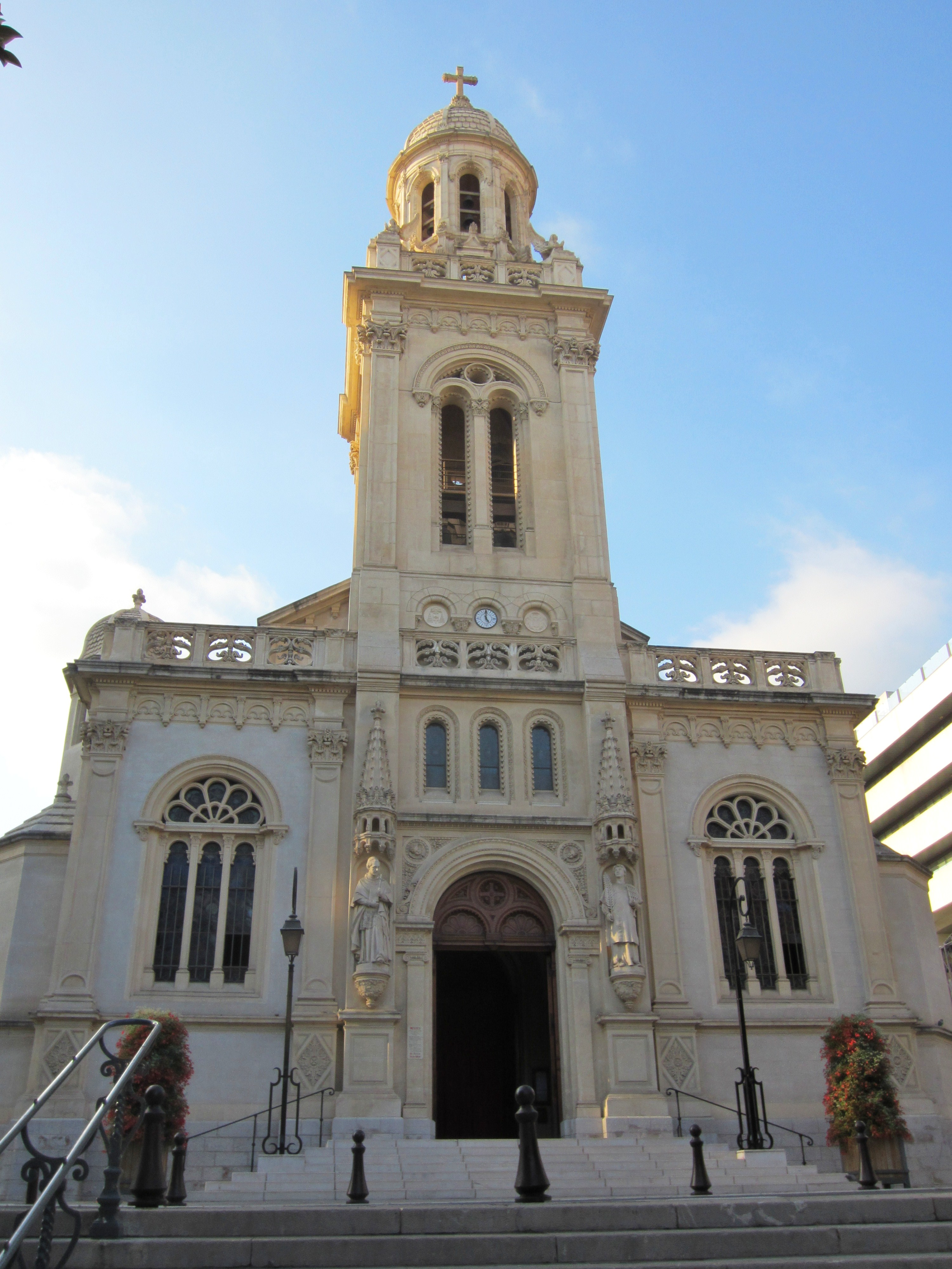 Description eglise st charles Monaco Date21 October 2011Sourcemon appareil photoAuthorAimelaimePermission(Reusing this file) eglise st charles Monaco